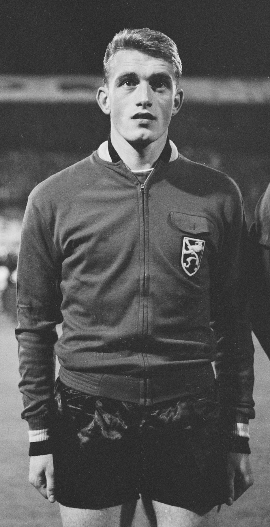 Links Plaskie en rechts Van Himst